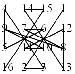 Kamea of the planet Jupiter as stated in De occulta philosophial ibri tres by Heinrich Cornelius Agrippa